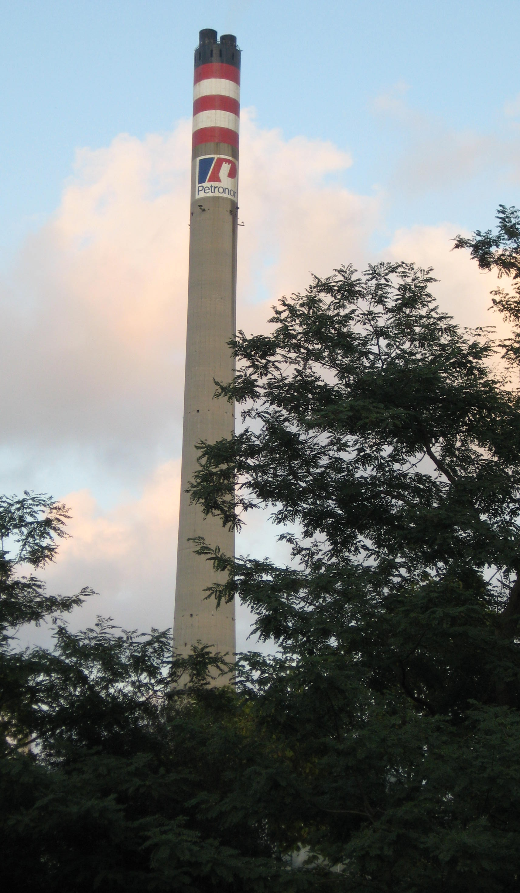 Chimney of Petronor premises in Muskiz, as seen from the left bank of river Barbadun.